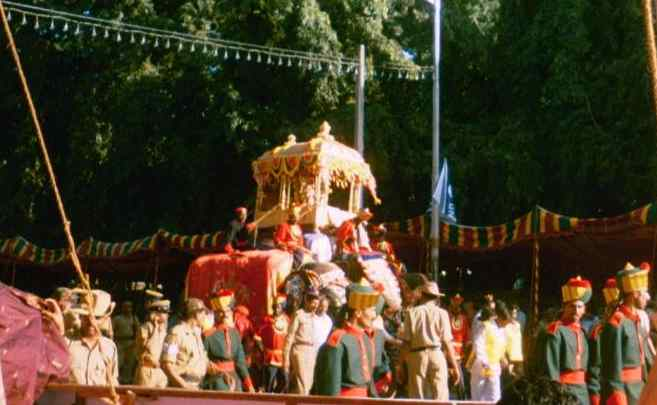 The elephant which carried Chamundi statue during Dasara Procession.